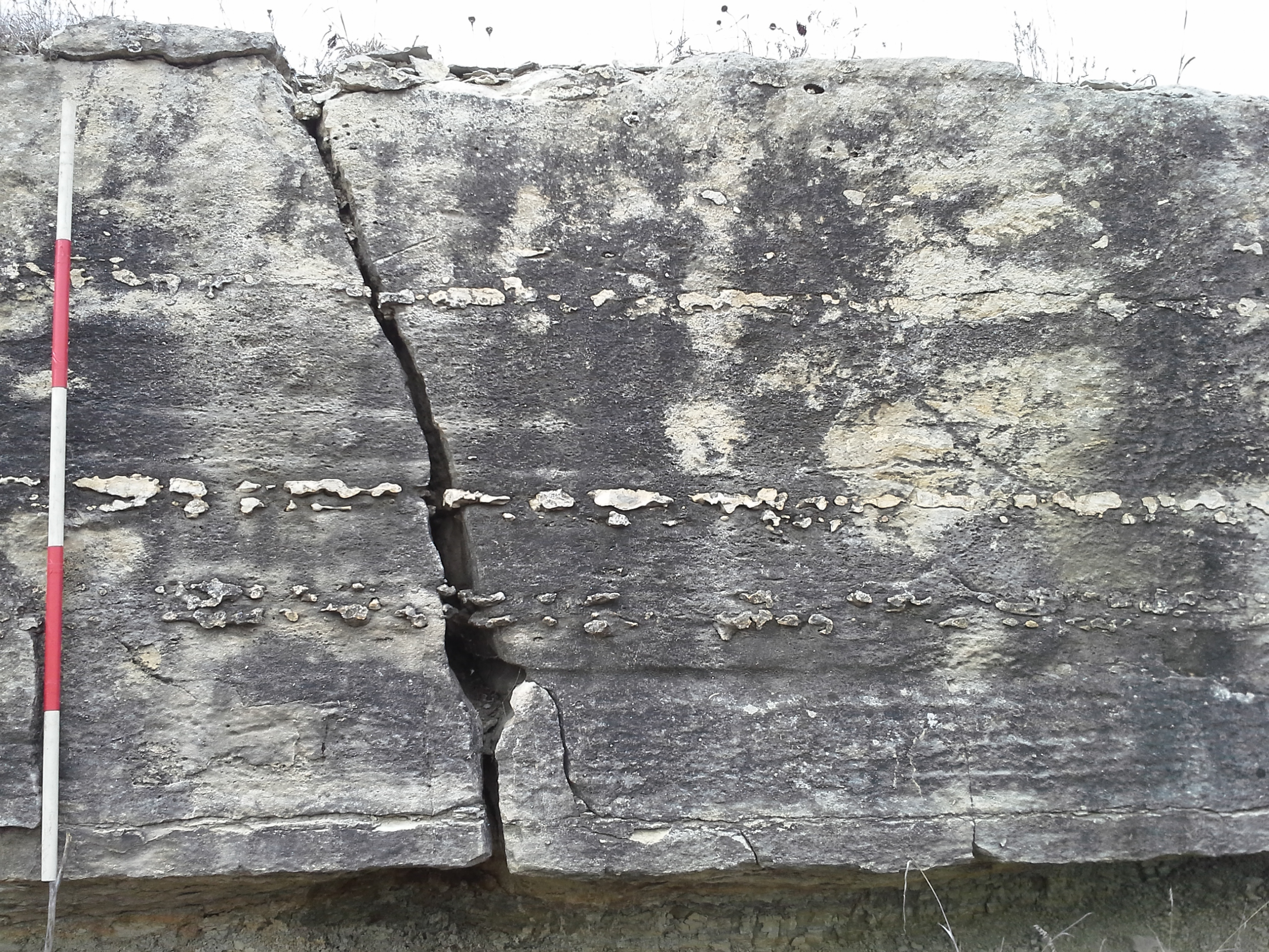 A face of Cottonwood Limestone seen less than a mile east of on K-113 (Kansas highway) showing history of subterranean dissolution along joints, which highlights the more resistant siliceous nodules.